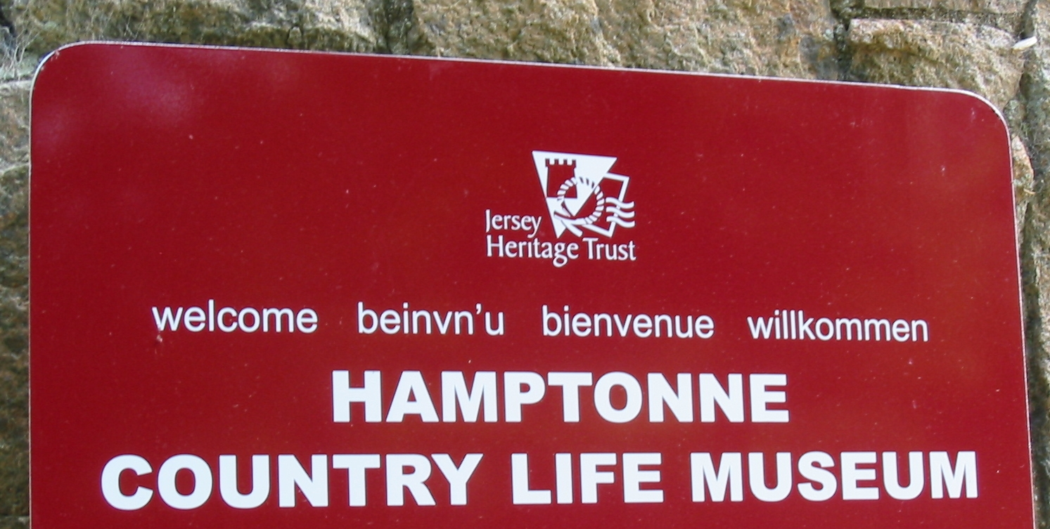 Sign at Hamptonne, Country Life Museum, Jersey